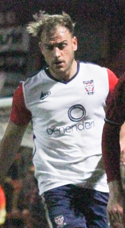 Jonny Burn playing for York City against F.C. United of Manchester at Broadhurst Park, Manchester on 17 April 2018